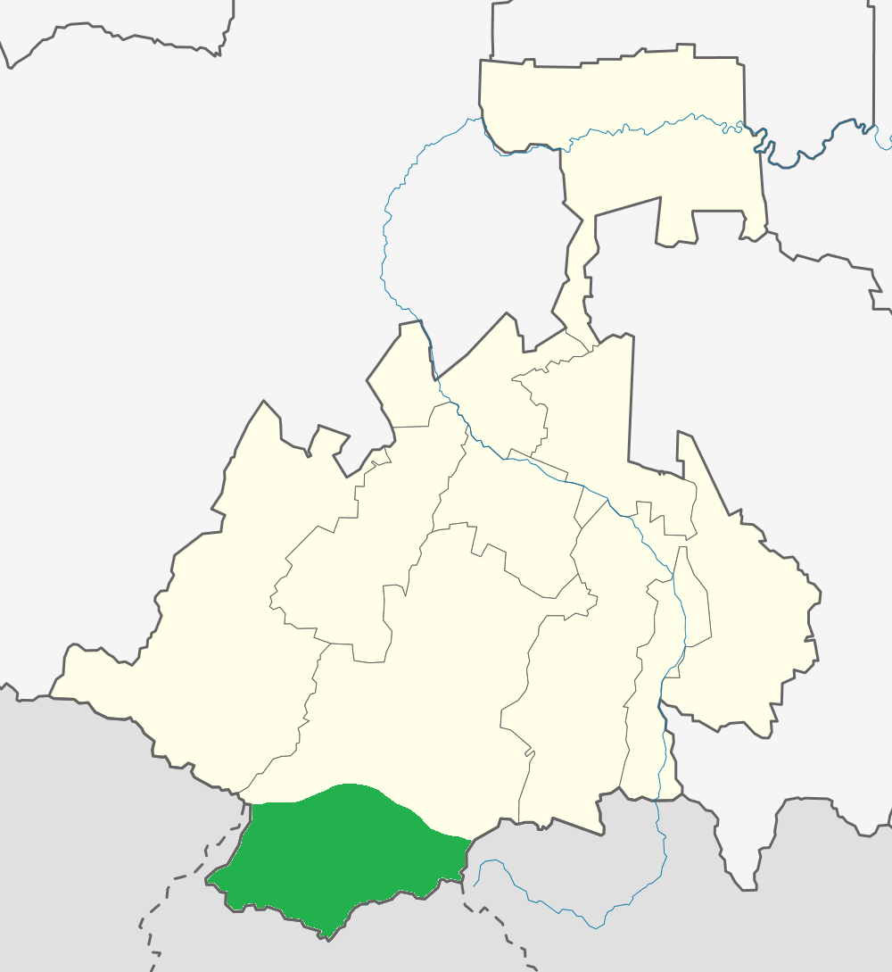 Tualgom in North Ossetia-Alania